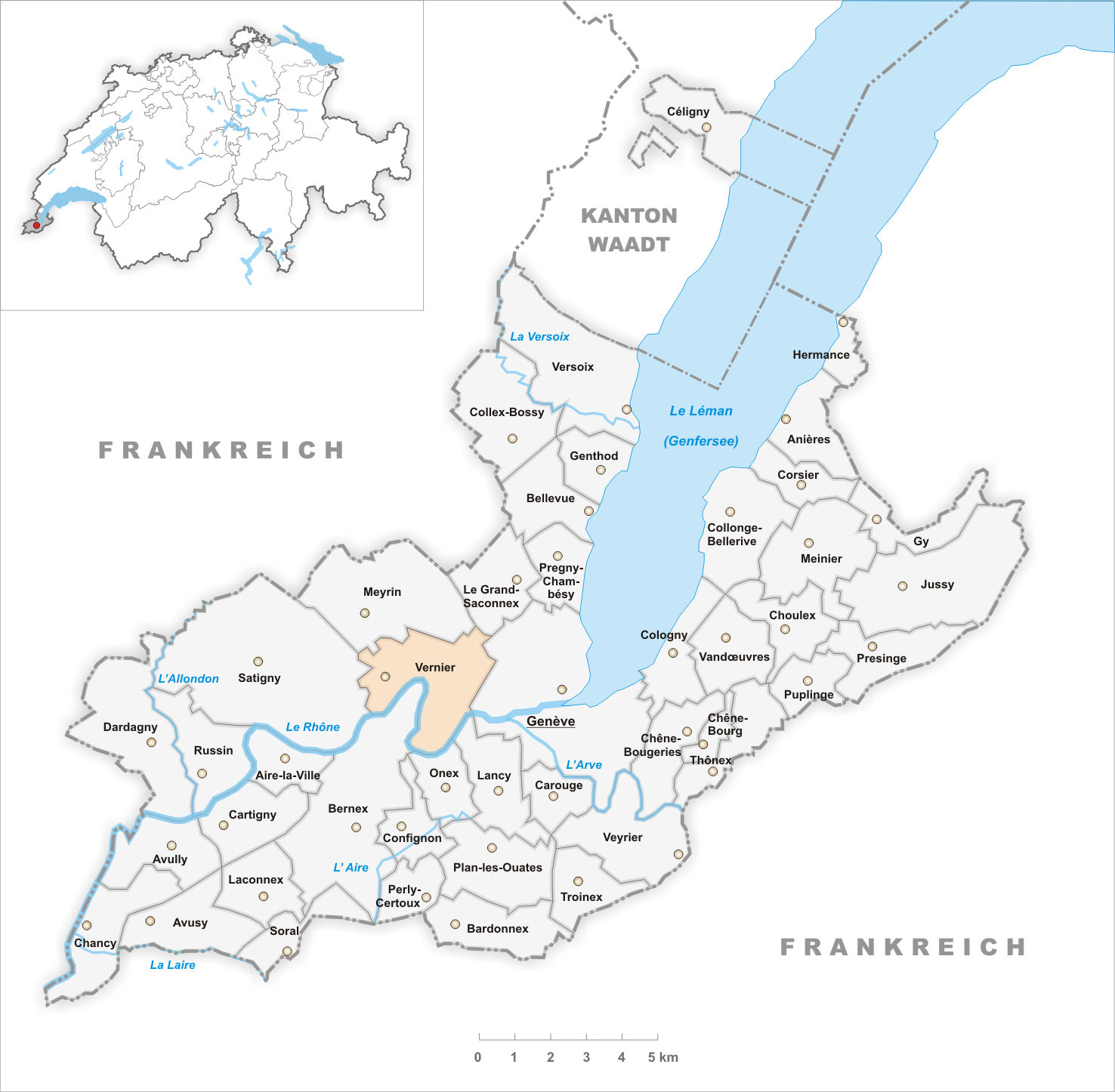 Municipality Vernier